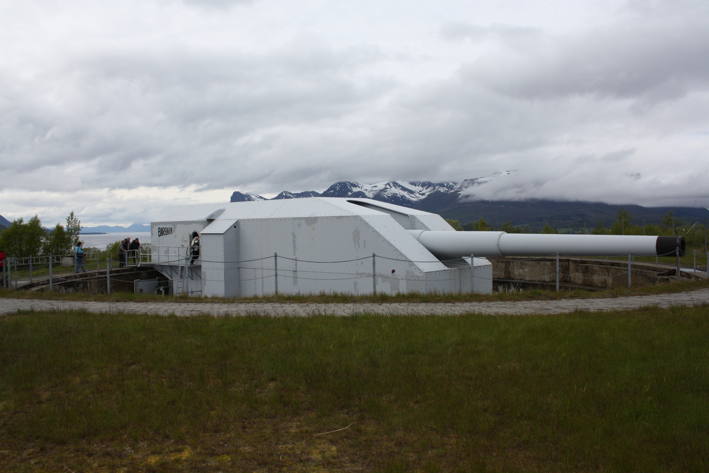 Turret No. 1 with the socalled Adolf gun of the 40.6 cm battery of Trondenes, Norway.